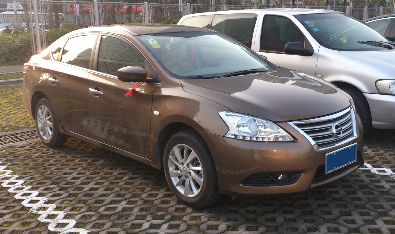 Nissan Sylphy B17 photographed in Shanghai, China.